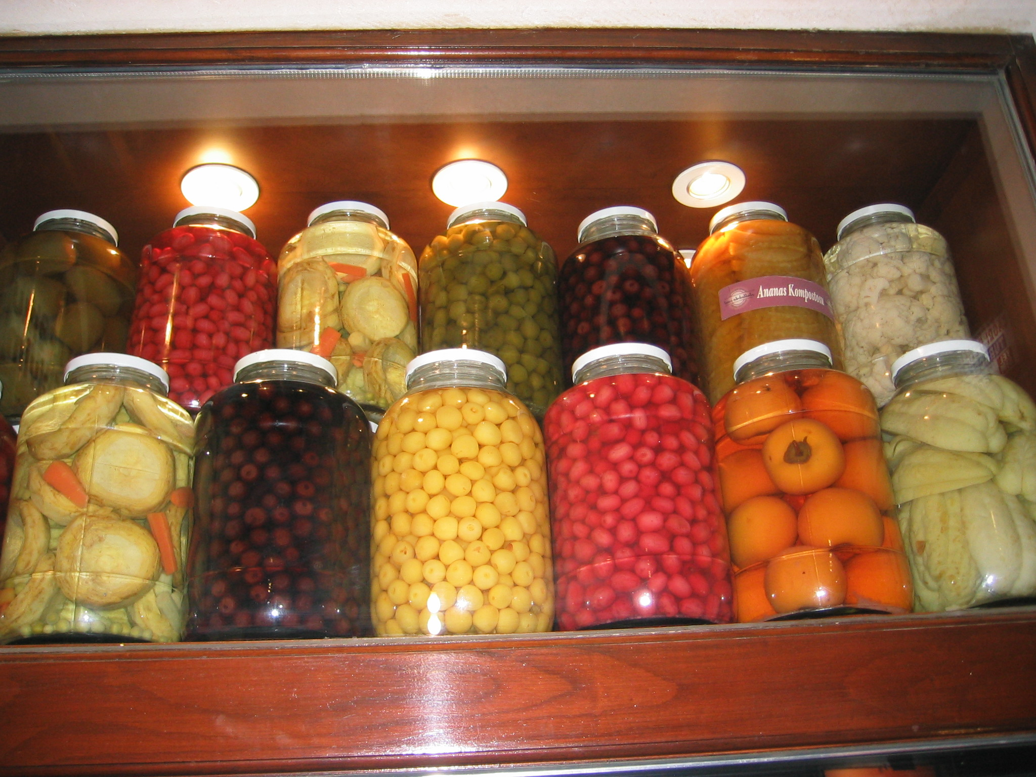 PicklesTürkçe: Turşu